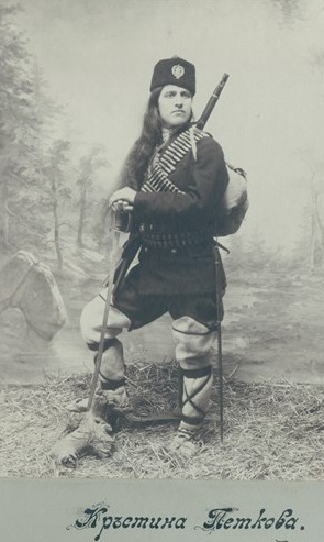 Photo of the Bulgarian revolutionary Krastina (Kristina) Petkova Rizova, member of Yane Sandanski's cheta